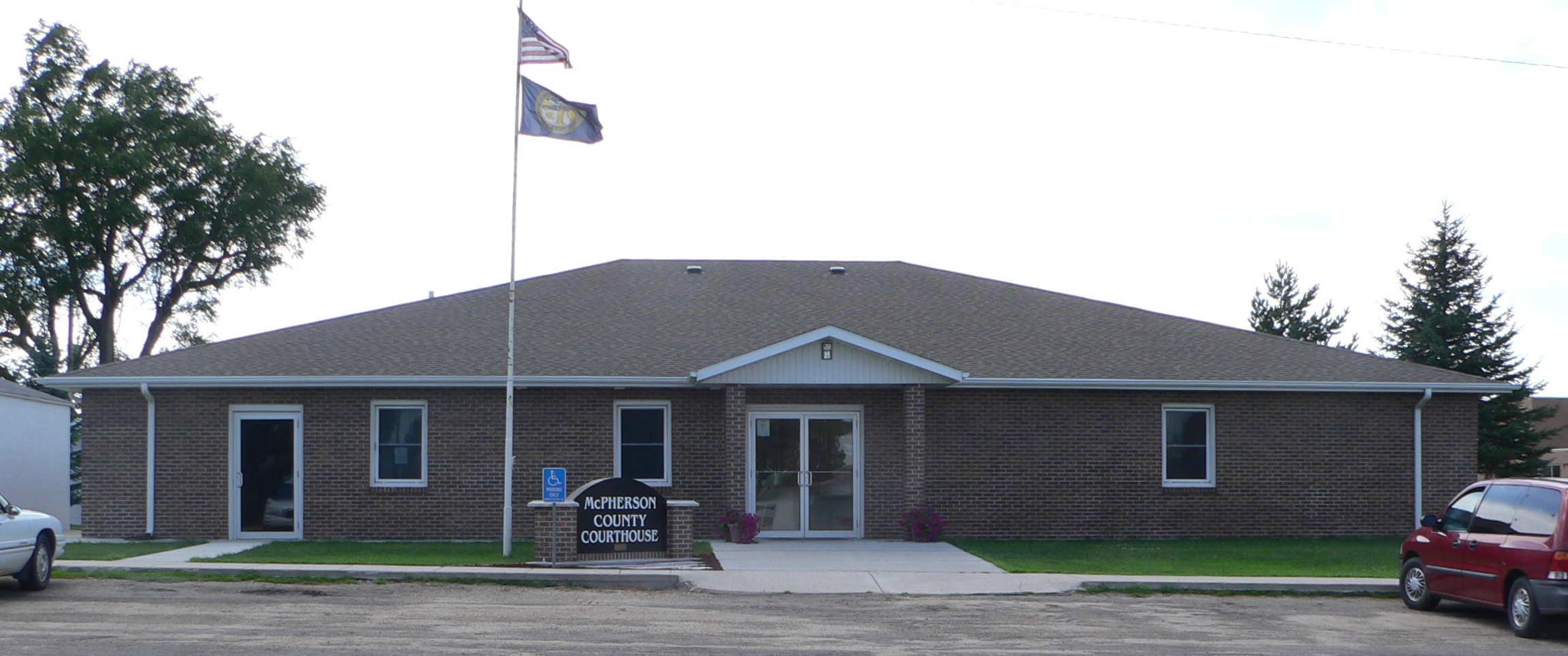 McPherson County courthouse in Tryon, Nebraska; seen from the east.